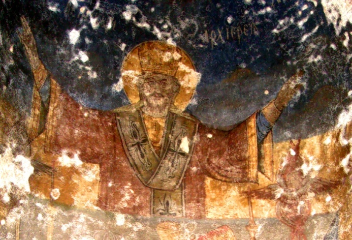 Christ Fresco in Saint Nicholas Church in Orashats